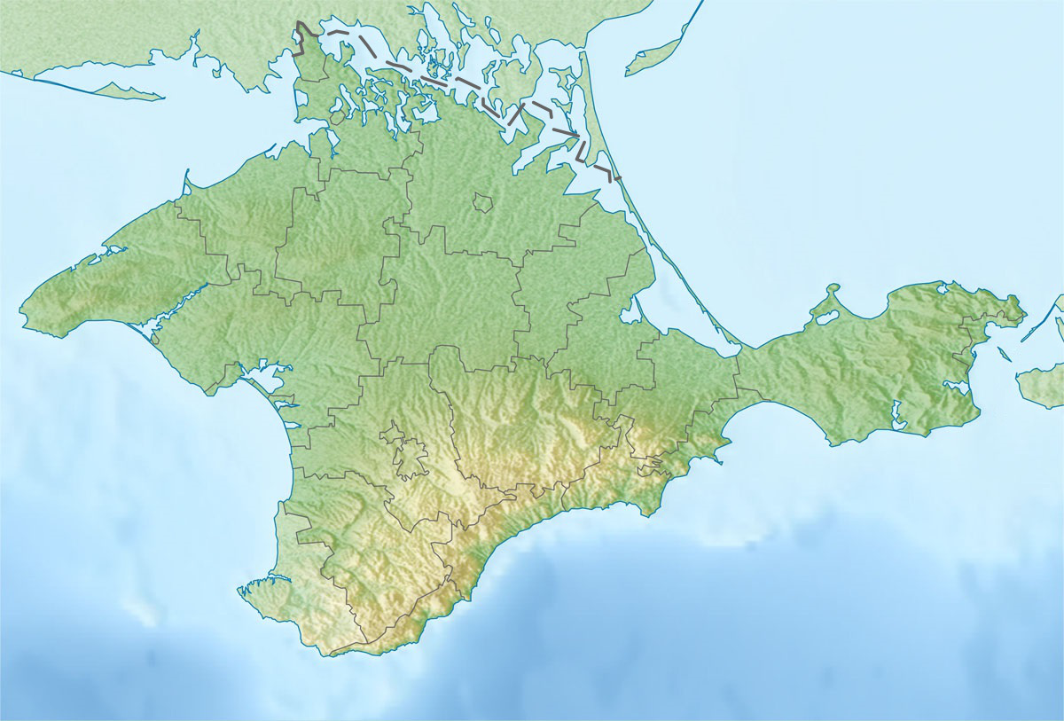 Physical map of the Republic of Crimea Conformal projection, standard parallels — 45°15's.W. Template parameters (coordinates of the edges): top = 46.3 bottom = 44.2 left = 32.4 right = 36.8